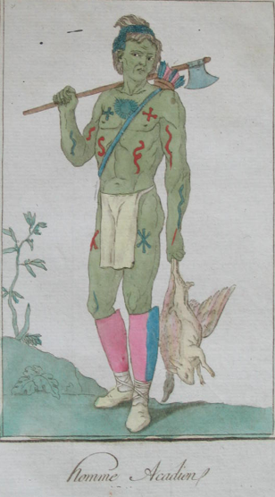 Acadian Man, Sylvain Maréchal, Paris, 1789.